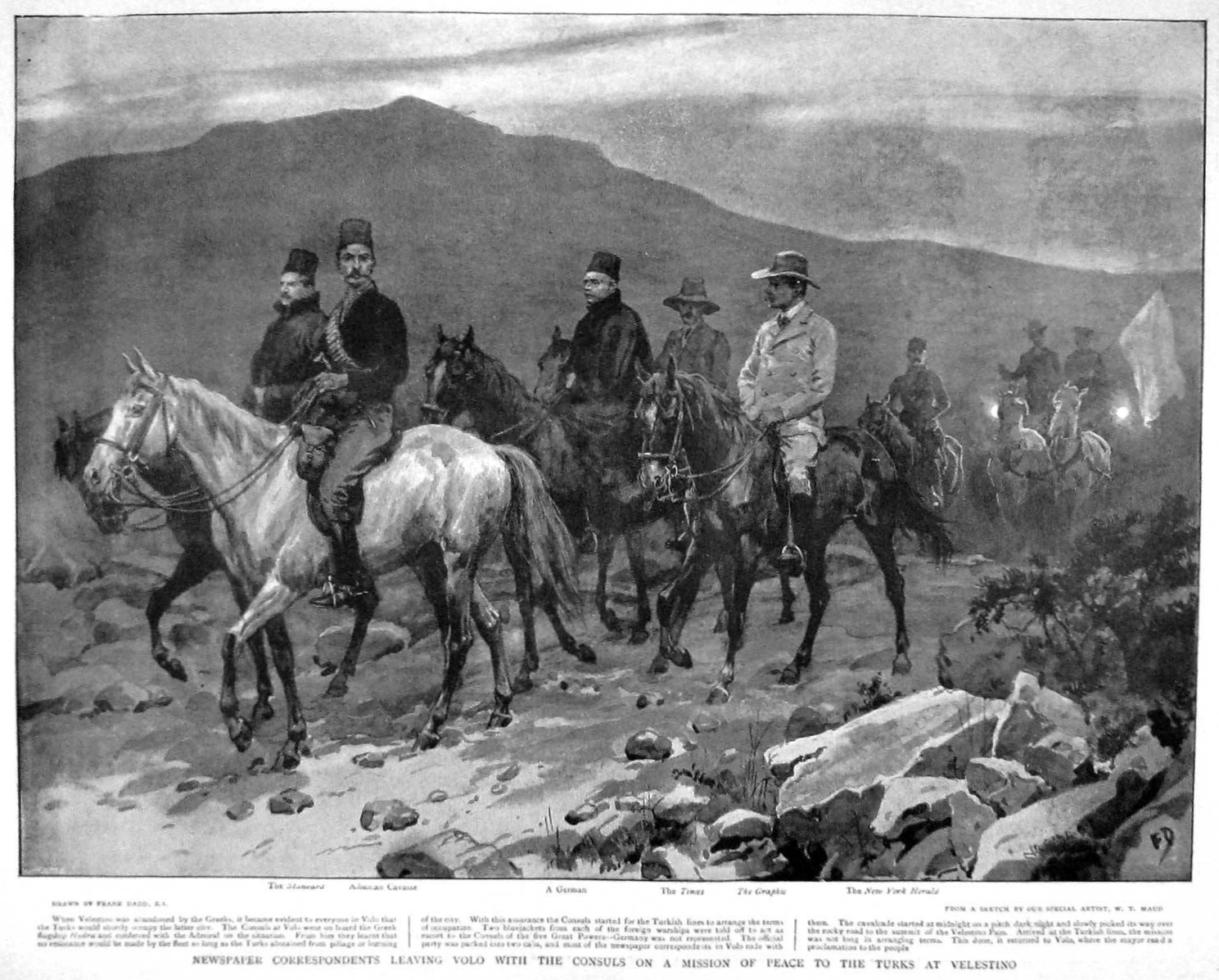 Foreign correspondents accompanying the Greek army and the consuls of the Great Powers at Volos on their way to the Turkish lines as peace envoys during the Greco-Turkish War of 1897